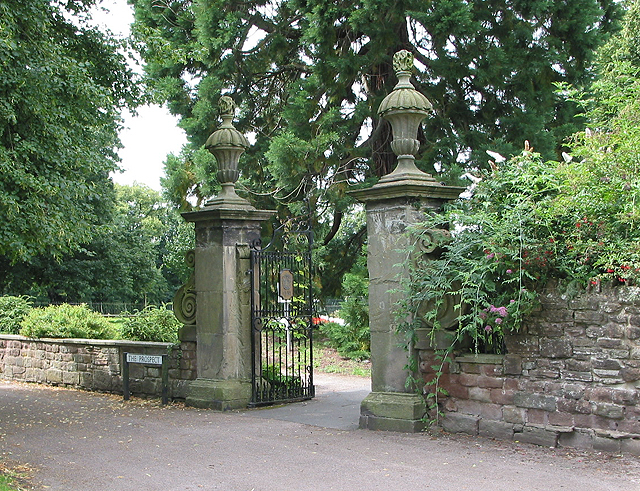 Grand entrance to The Prospect A public garden with war memorials and ancient trees and a superb view over the River Wye and countryside beyond.